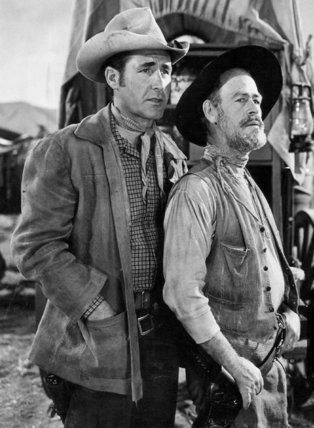 Photo of Sheb Wooley as Pete Nolan and Paul Brinegar as Wishbone from the Western television program Rawhide. Wooley was also a singer; The Purple People Eater was a big 1950s novelty hit record.